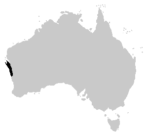 The distribution of Arenophryne rotunda